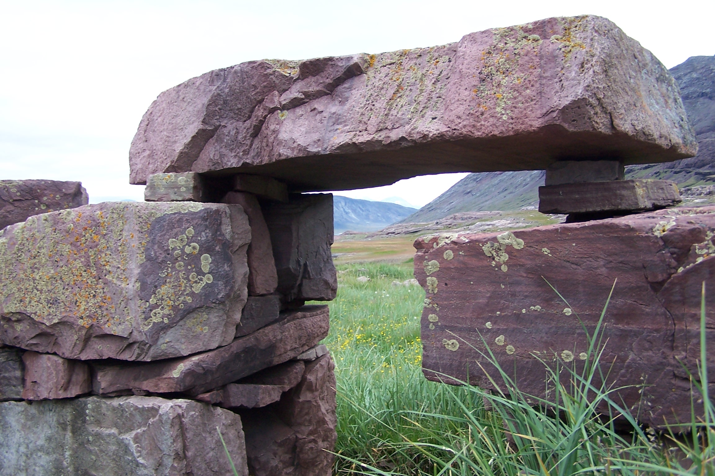 The so-called Tiendelade ruins in Igaliku, Greenland